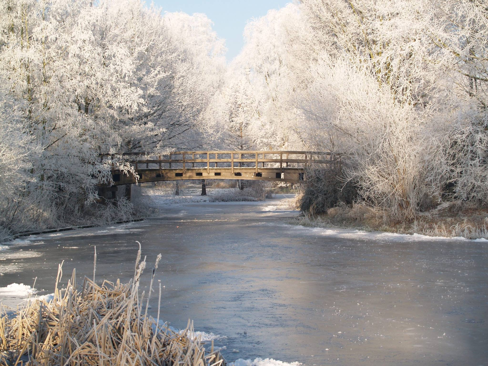 Gat van 't Hooft creek in Werkendam, Netherlands